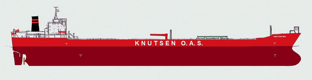 Tanker ship